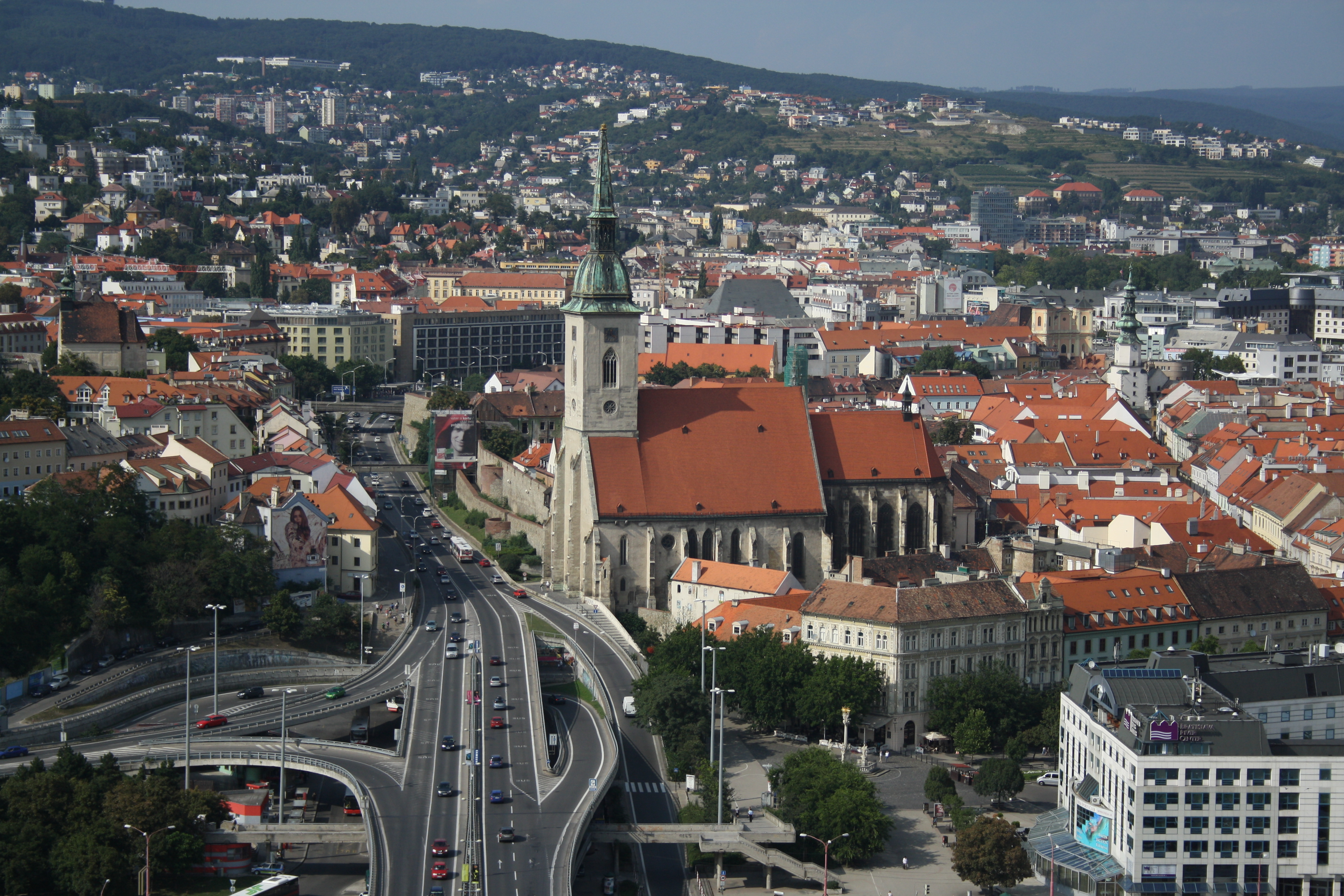 Cathedral of Saint Martin in Bratislava, view from Nový most viewpoint.